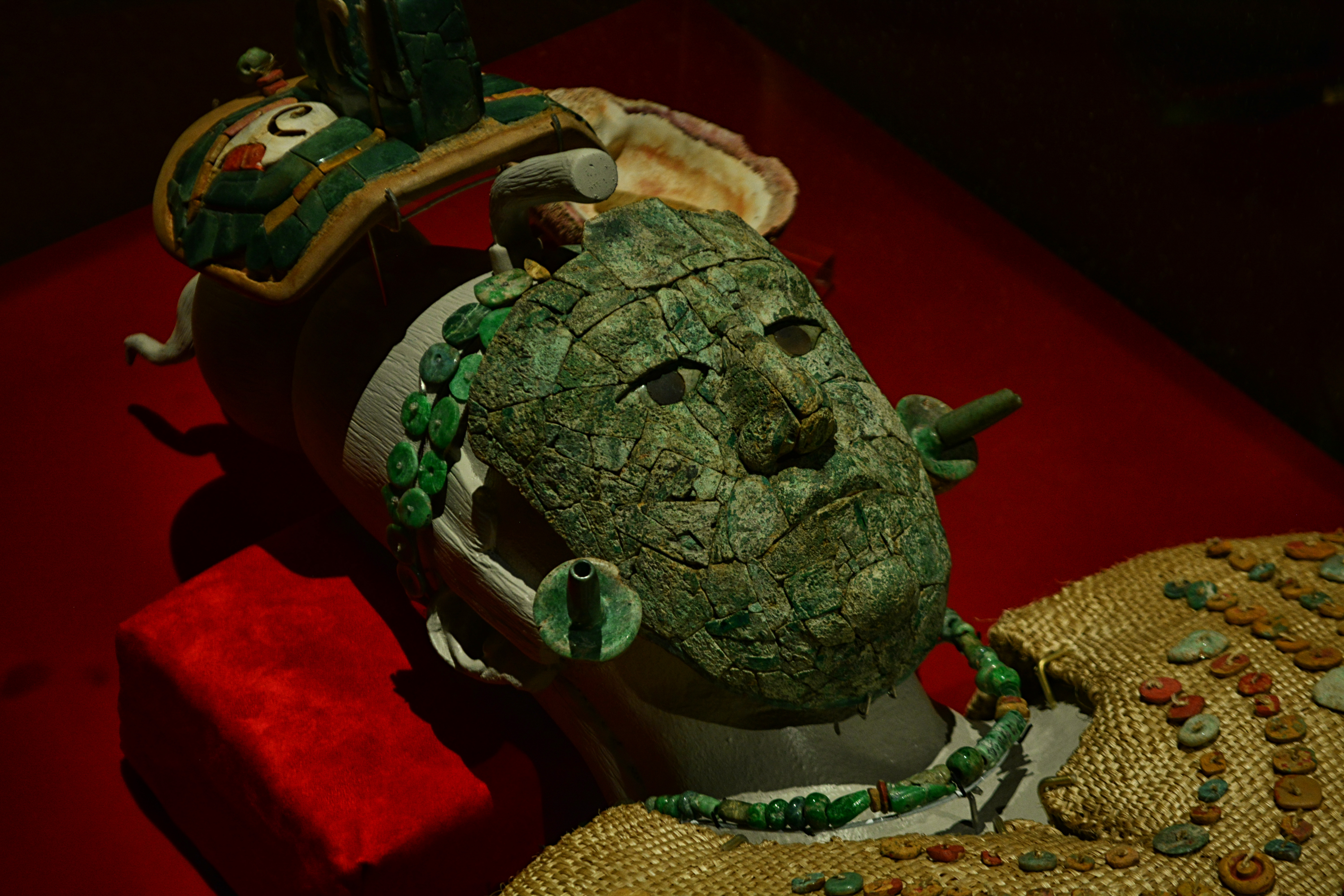 Funerary trousseau of the "Red Queen" of Palenque, shown in the exhibition "The Red Queen, The Journey to Xibalbá", Museo del Templo Mayor, Mexico City, Mexico.